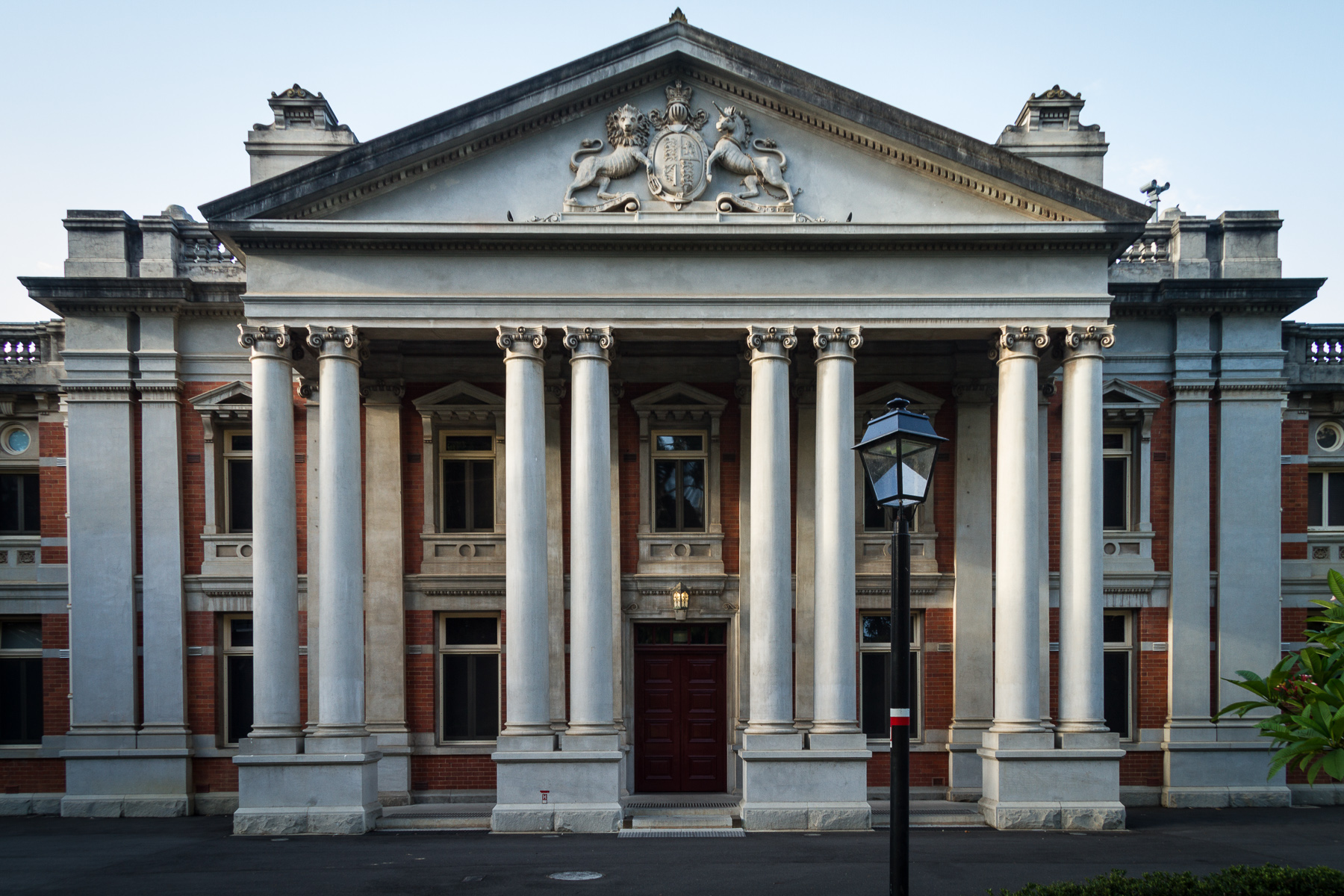 Supreme Court of Western Australia